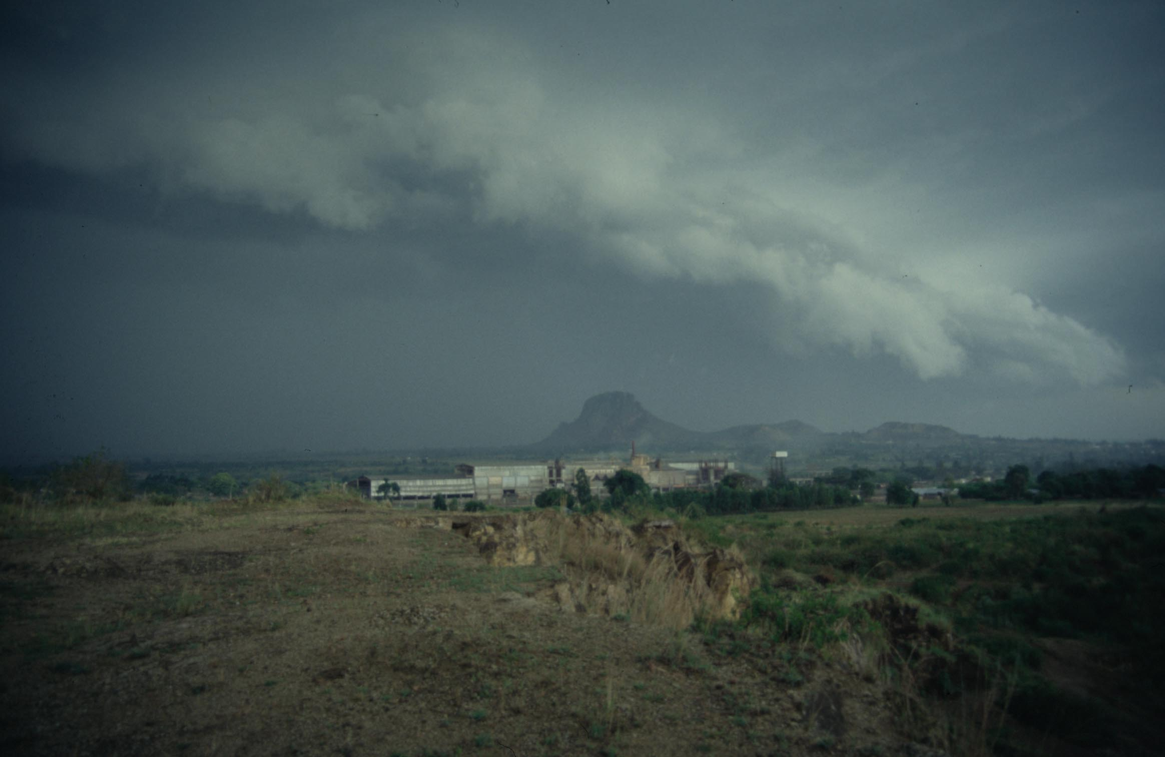 Sturmwolken bei Tororo,E Uganda. Im Hintergrund der Tororo Rock / lightning storm at Tororo, E Uganda. Tororo Rock can be seen in the background